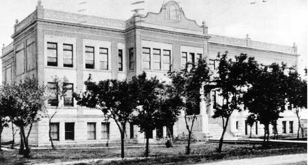 This is an image of Luxton School in Winnipeg, Manitoba. It shows what the school originally looked like in 1910, 3 years after construction.